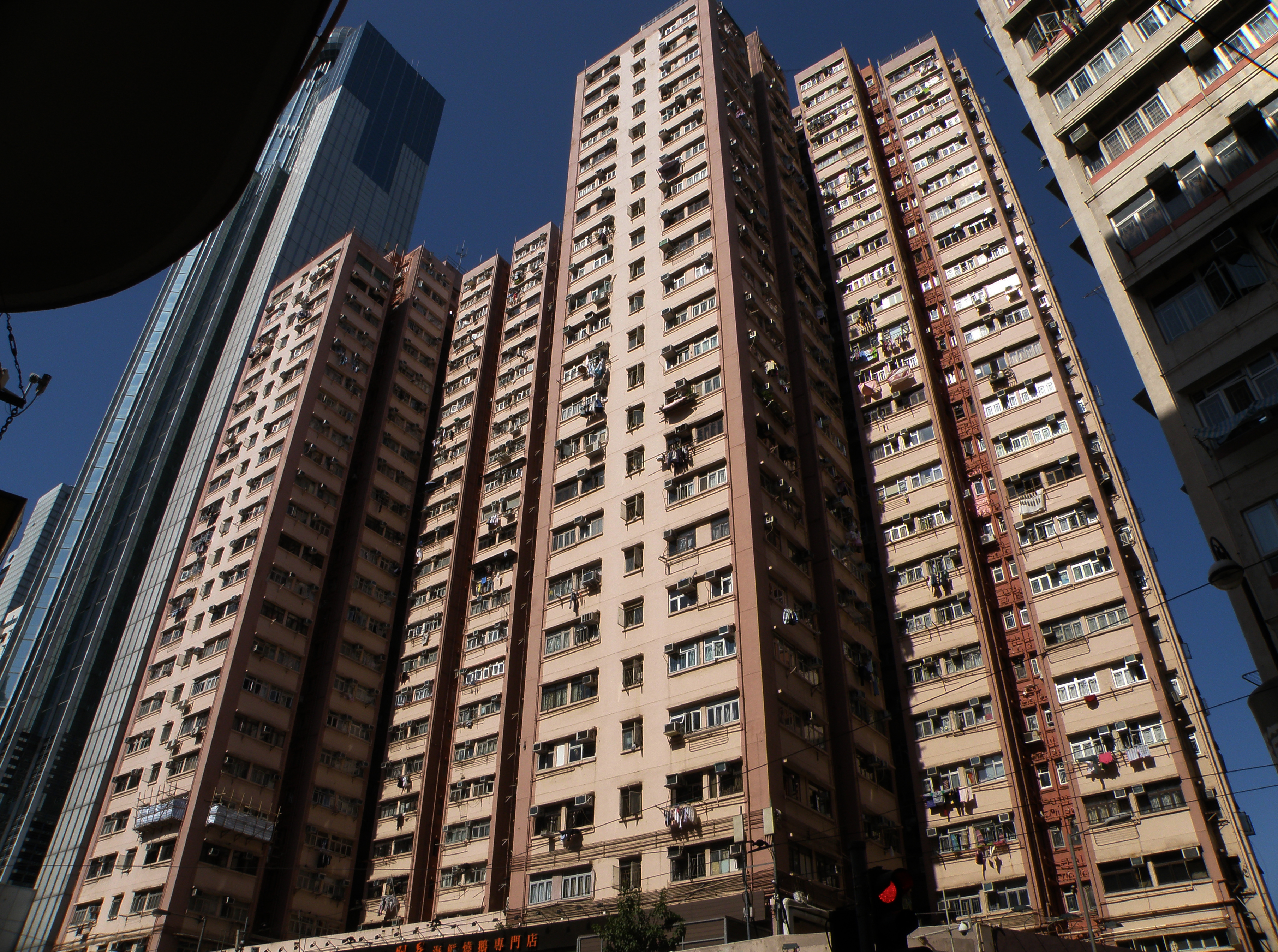 Kwan Yick Building - Phase III in Sai Ying Pun, Hong Kong.